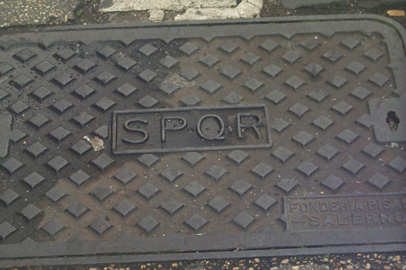 Template:PD-self